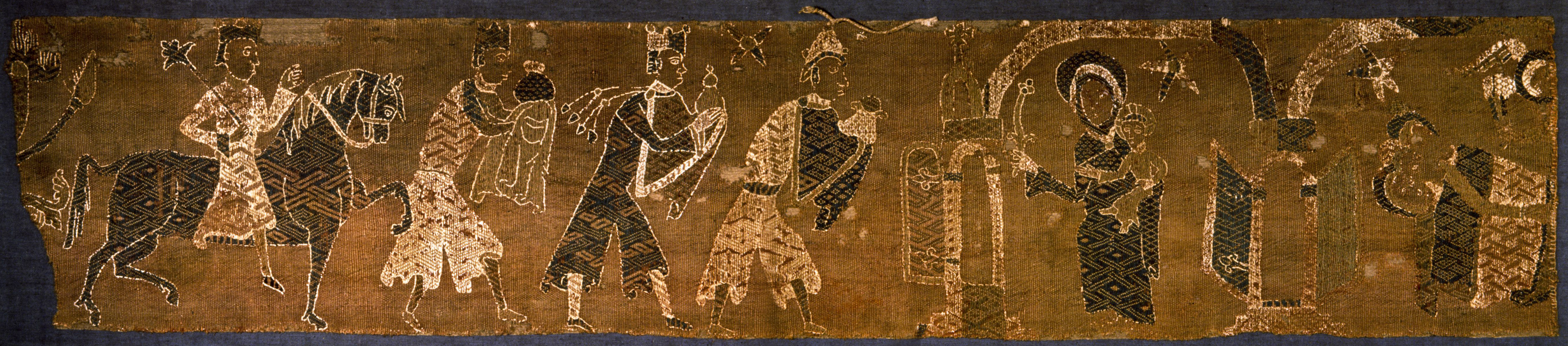 An embroidered tapestry from the 12th or 13th century. Owned by NTNU Museum of Natural History and Archaeology. A replica is kept in Høylandet kirke (=church), Nord-Trøndelag, Norway. The tapestry is now approx. 2 m long, but has been longer.